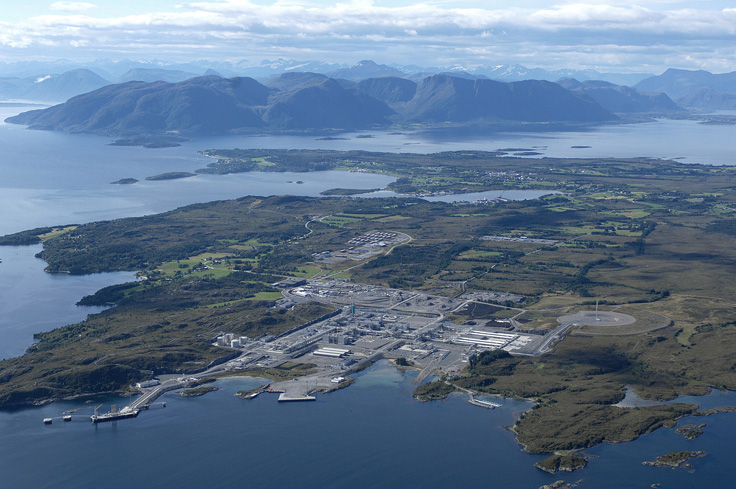 Photo: Shell/Øyvind Leren